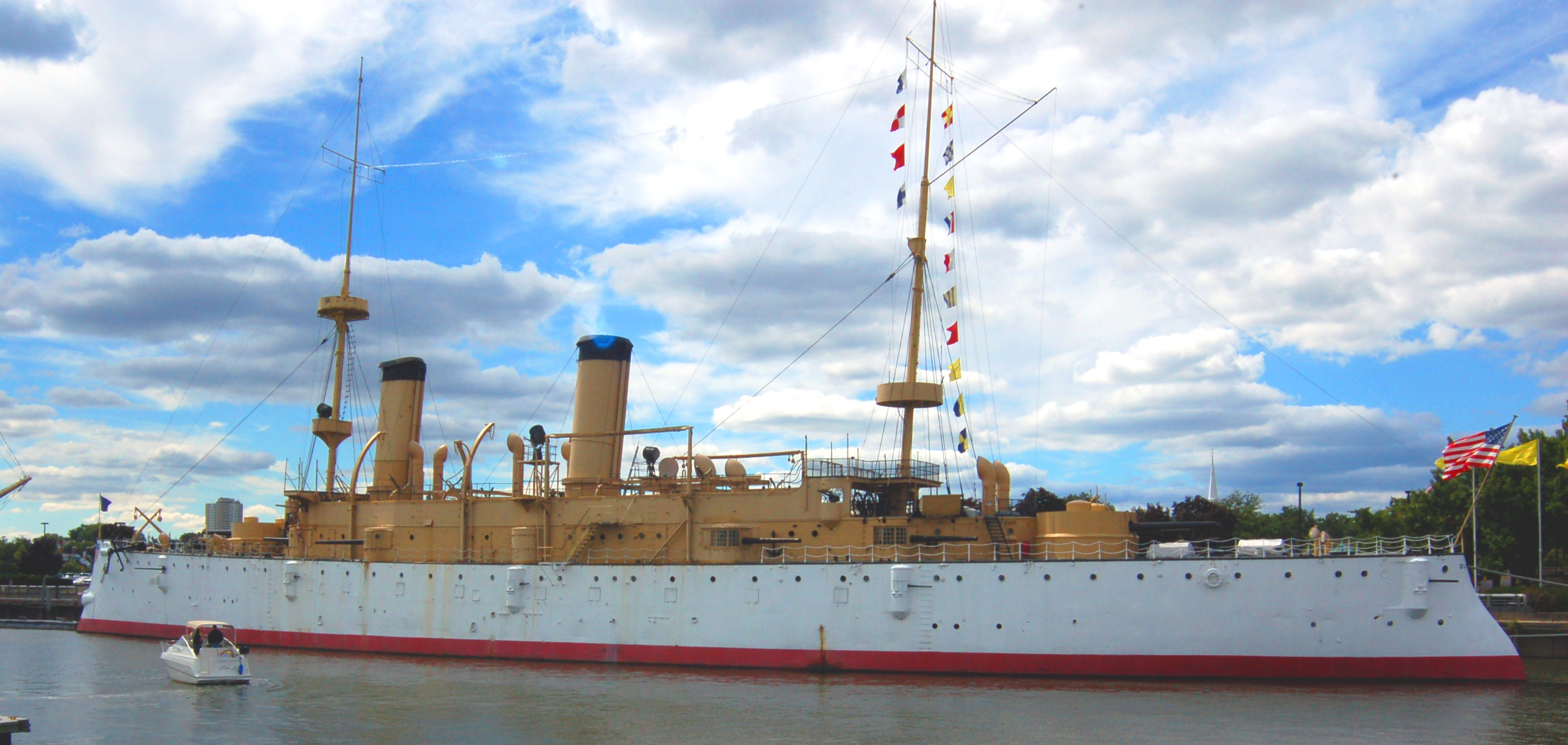 The USS Olympia on display as a museum ship on the Delaware River near Penn's Landing in Philadelphia.